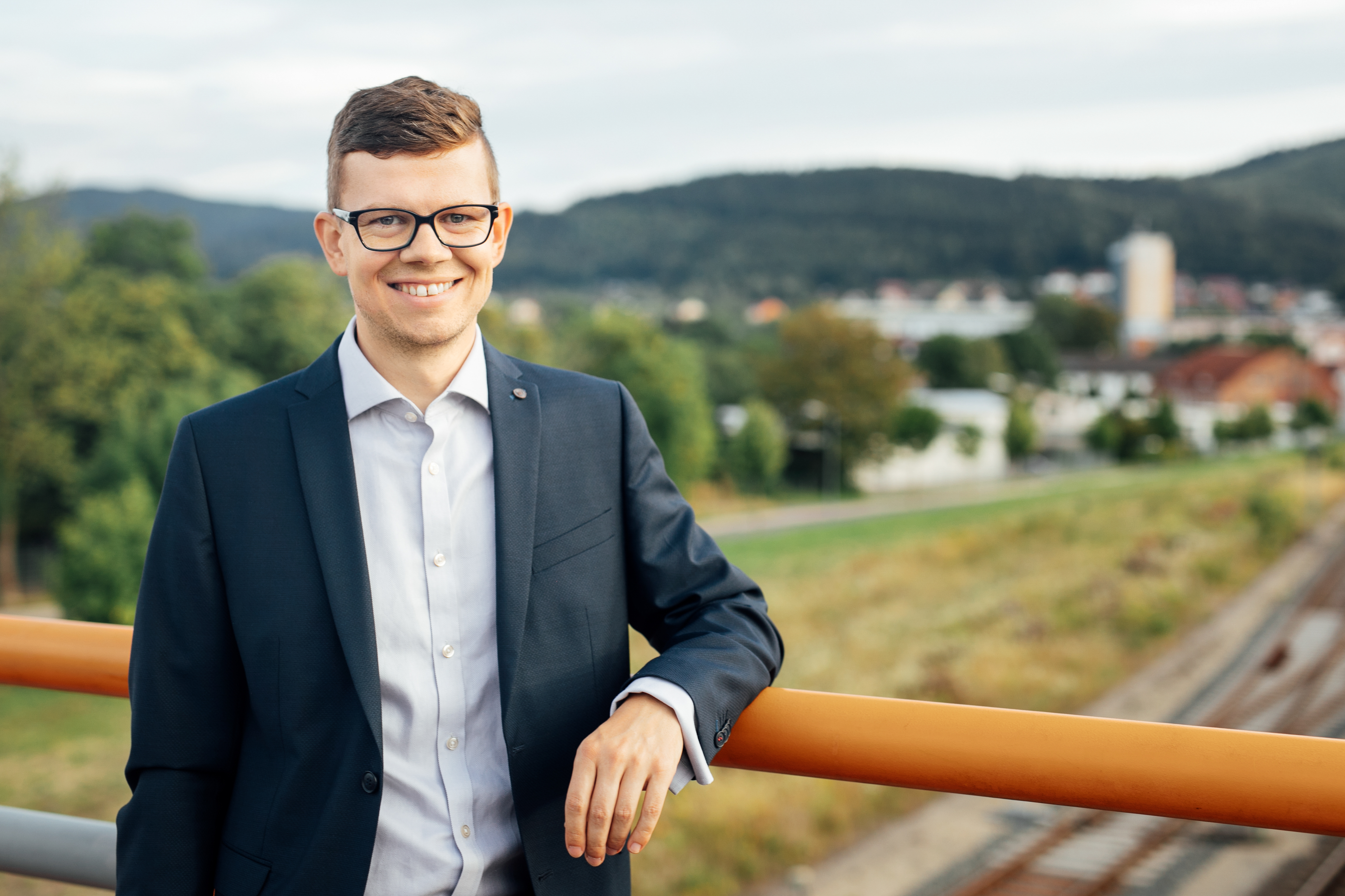 Portrait of Daniel Schultheiß at the Nelson Mandela bridge in Ilmenau.